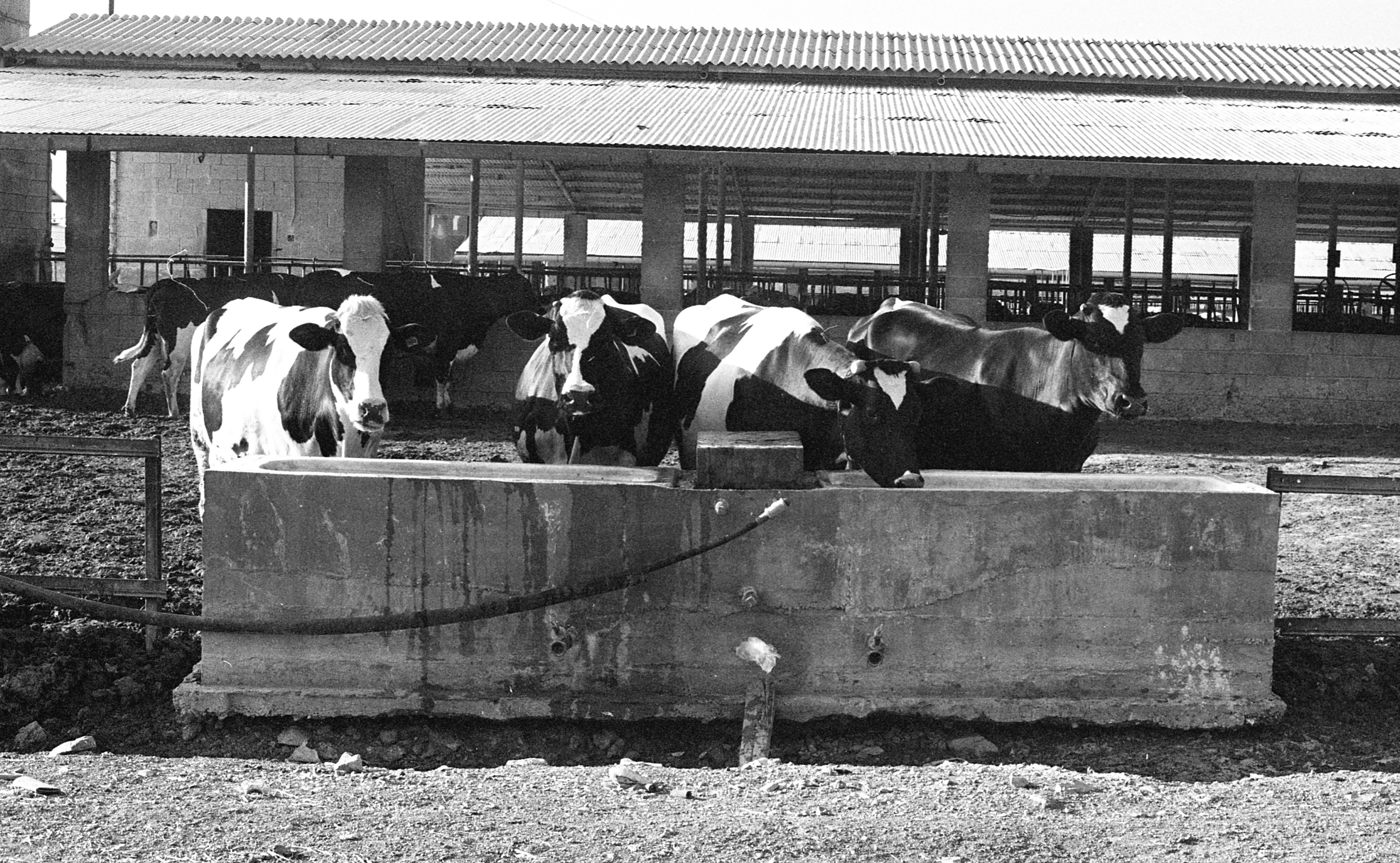 Kibbutz Merhavia received a special prize for their cows who's milk production is the highest in the world.